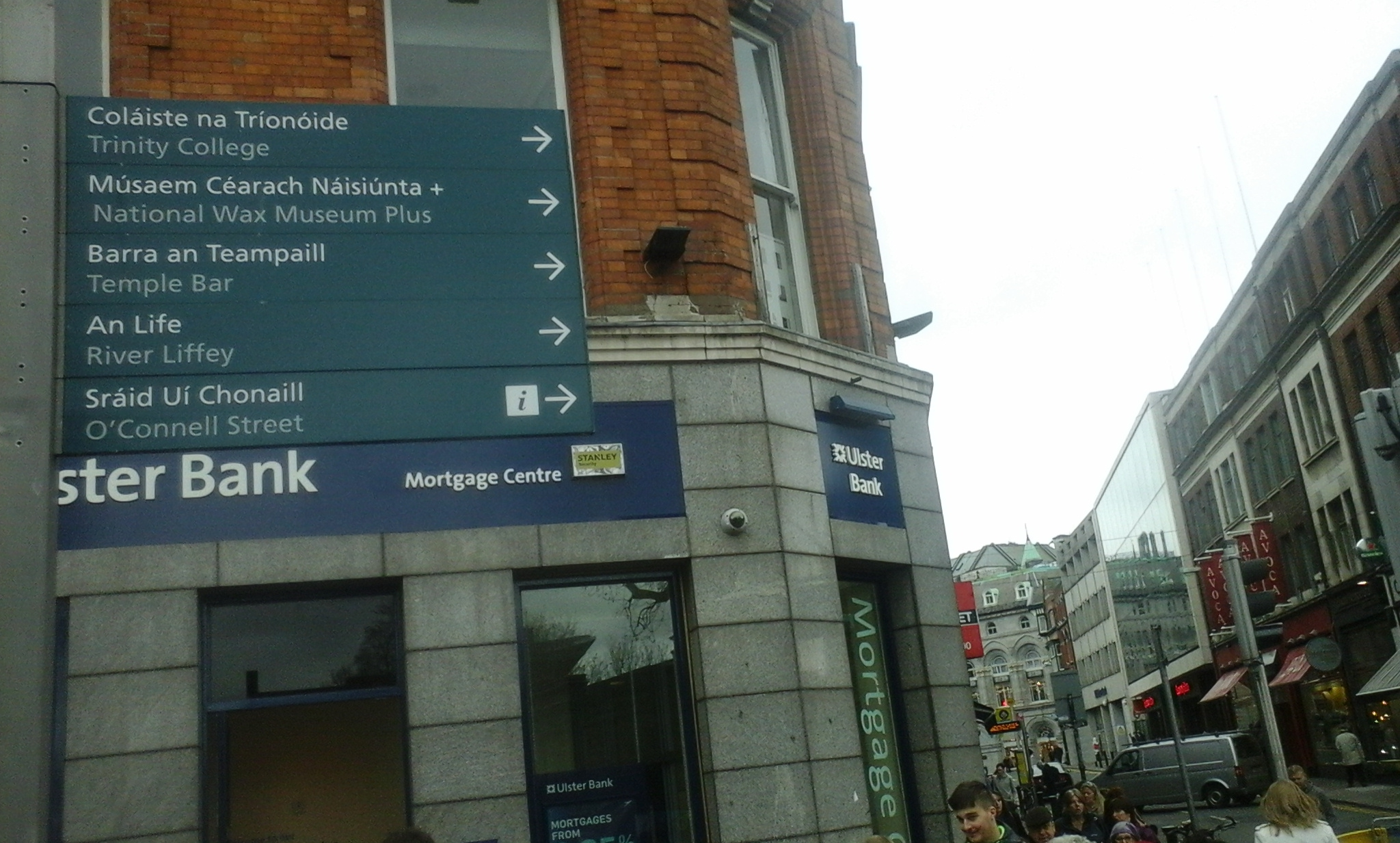 A bilingual sign outside the branch of Ulster bank at 105 Grafton Street on the corner of Suffolk Street (on the right), Dublin, Ireland.